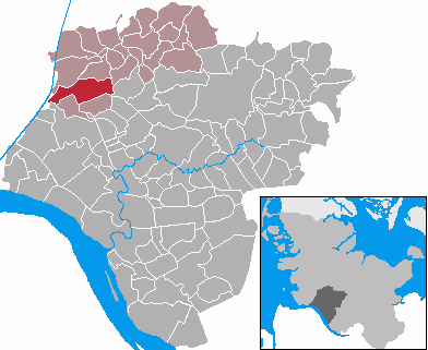 This map shows the area of the municipality Vaale in the Kreis (district) Steinburg, Schleswig-Holstein, Germany.